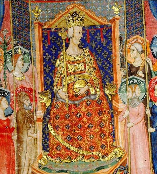 Robert of Naples